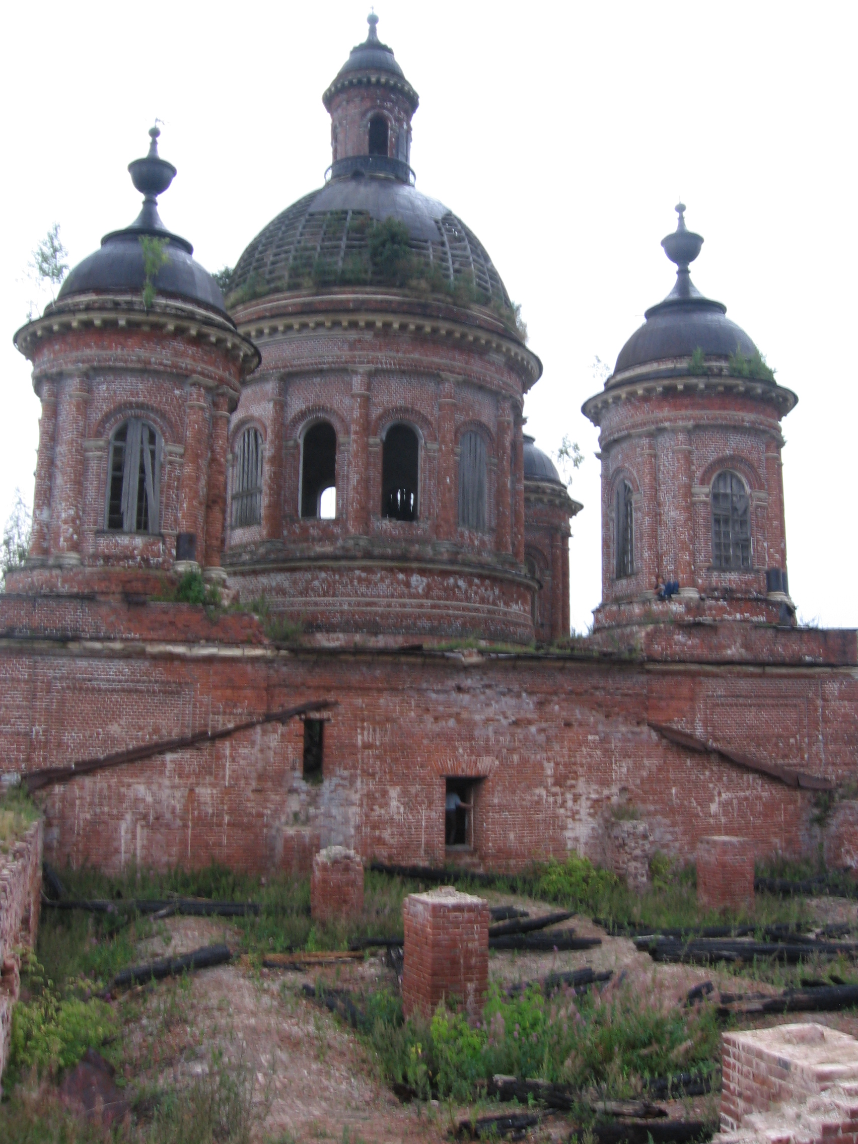 Church of the Intercession of the Theotokos in Uhtym, Kirov region, Russia, 1847-1867